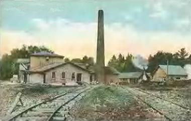 Kearsarge Peg Mill in c. 1910, Bartlett, NH; from an old postcard.